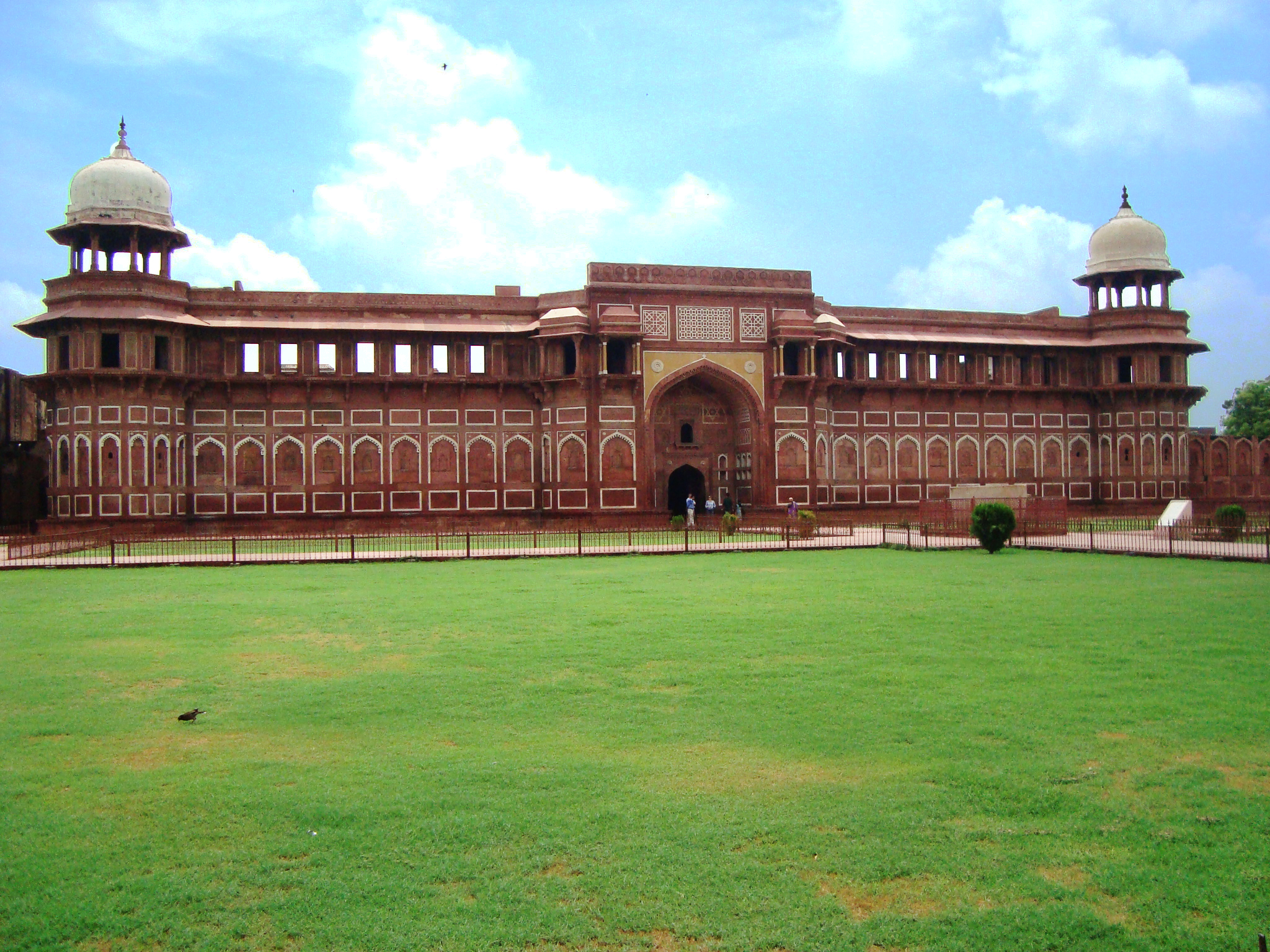 Jahangiri Mahal (Hindi: जहाँगीरी महल, Urdu: جہانگیری محل), may be the most noteworthy building inside the Agra Fort